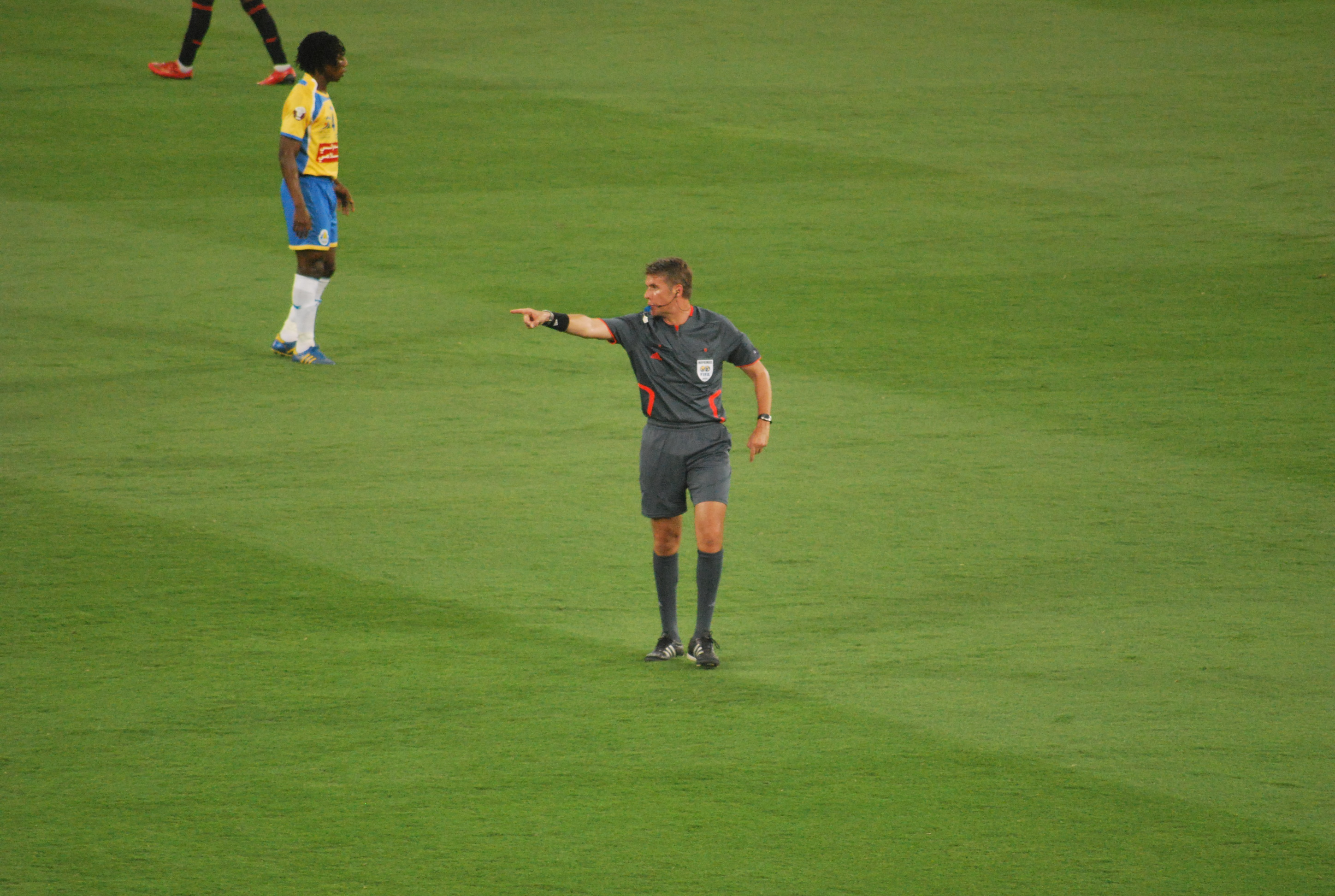 Gharrafa VS Arrayene qatari 2009 Emir of Qatar Cup Final.